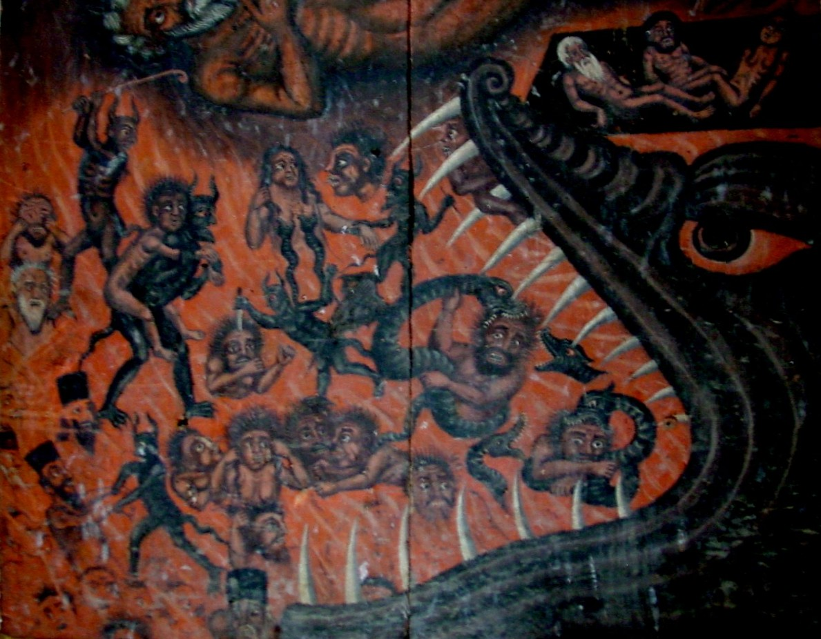 Loose icon in Gelati monastery shows a Western-inspired Hellmouth